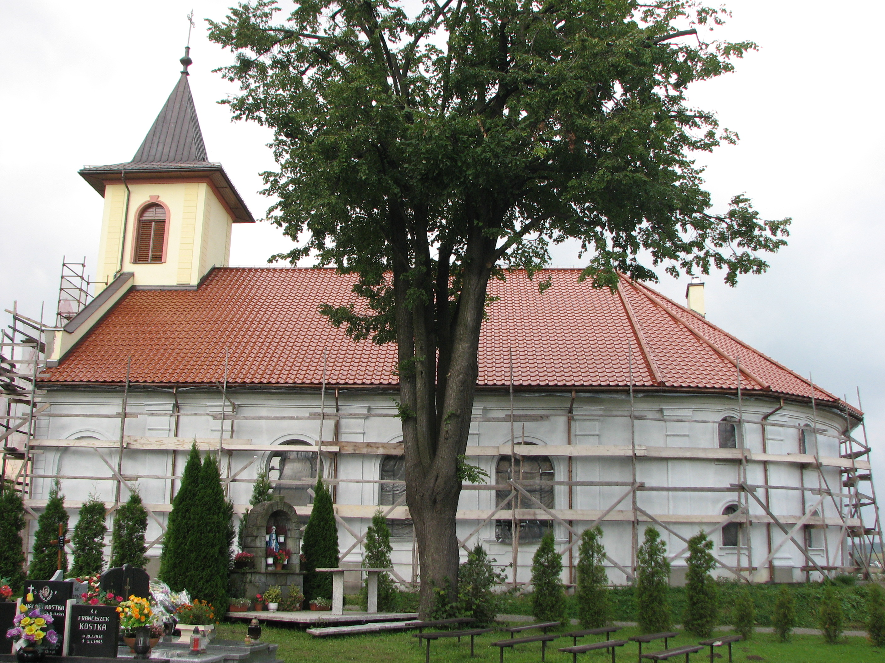 Church of Sacred Heart in Krasna (district of Cieszyn)